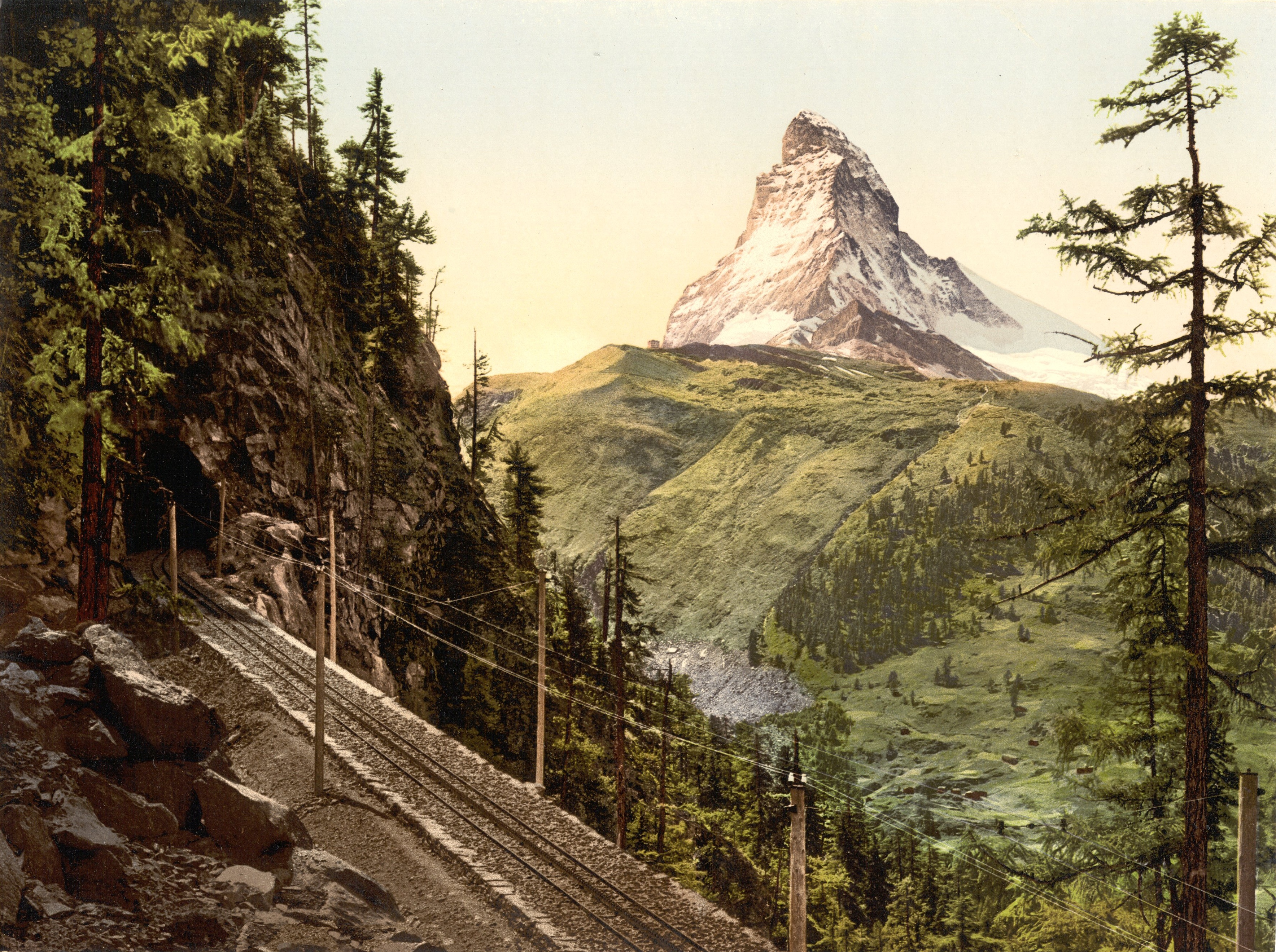 Matterhorn ca. 1900, with local railway Gornergratbahn, border between Switzerland and Italy Other Versions Color Corrected Version